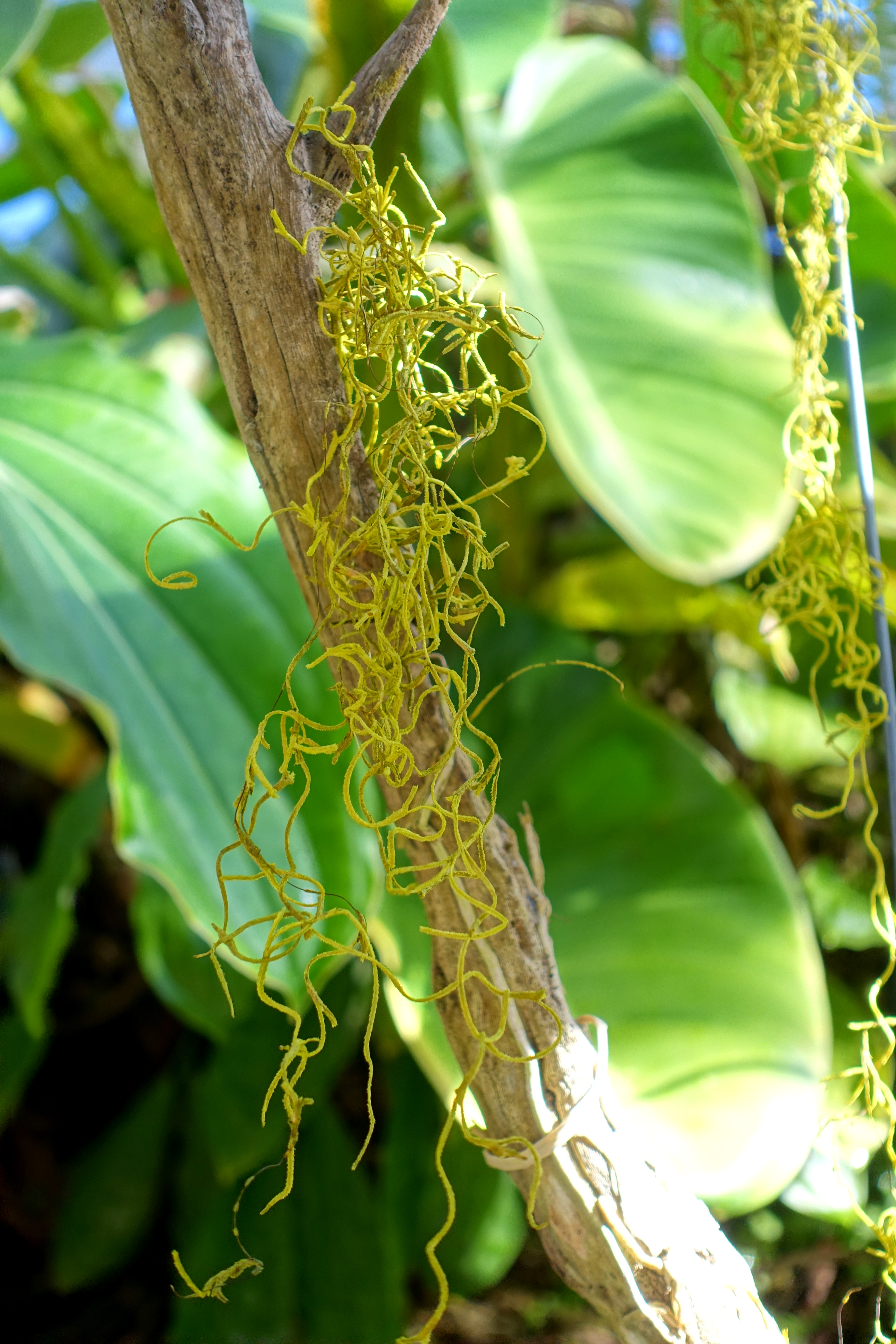 Botanical specimen in the Marie Selby Botanical Gardens - Sarasota, Florida, USA.